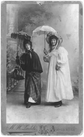 Photograph of the 19th century Dutch comedians Lion Solser and Piet Hesse.